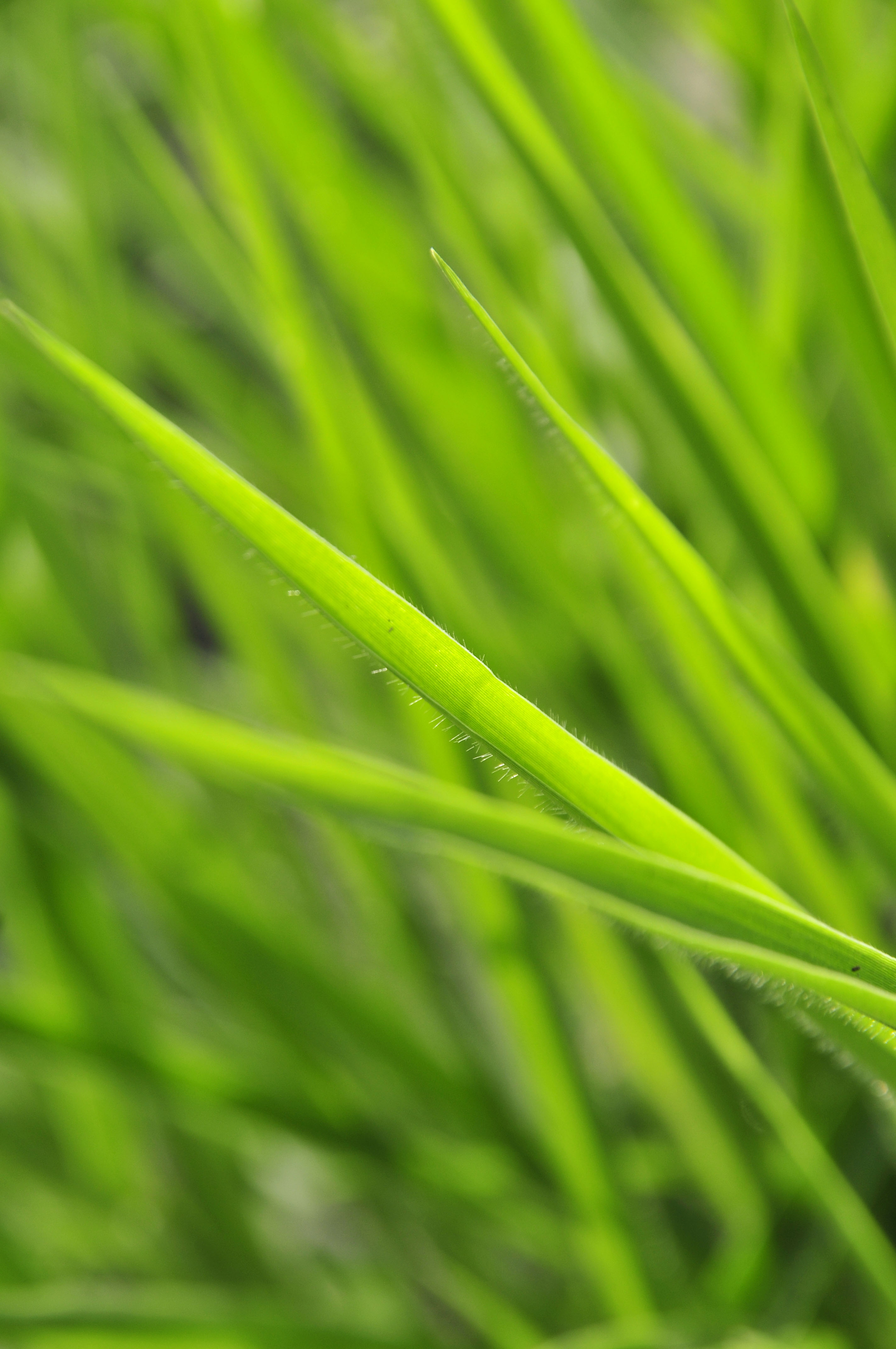 Culture of Brachiaria in Colombia.